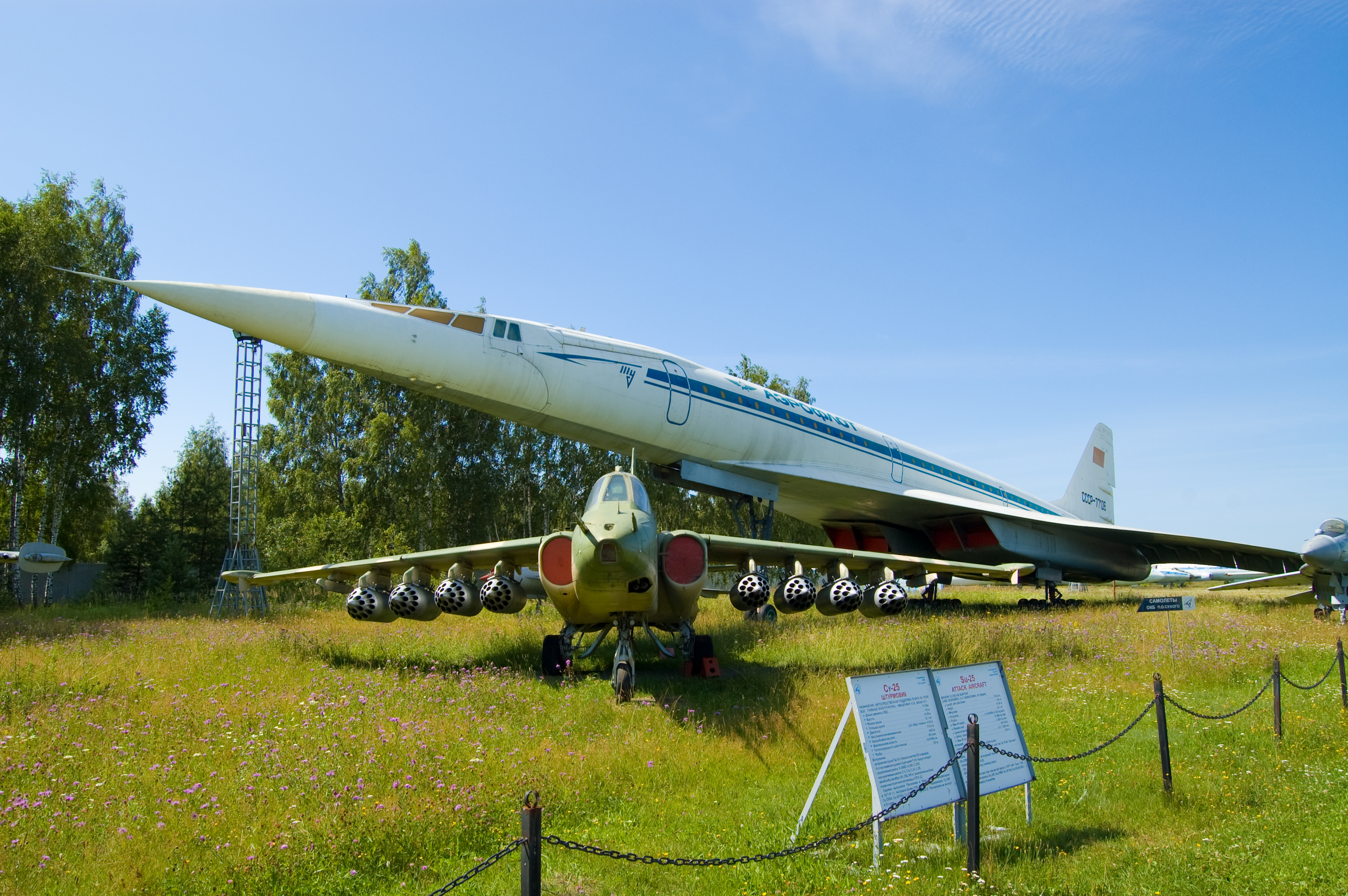 The "Concordski".